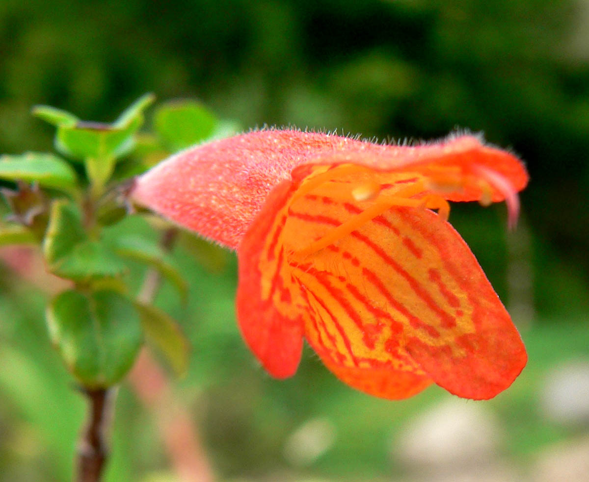 Photo of Satureja mexicana at the University of California Botanical Garden